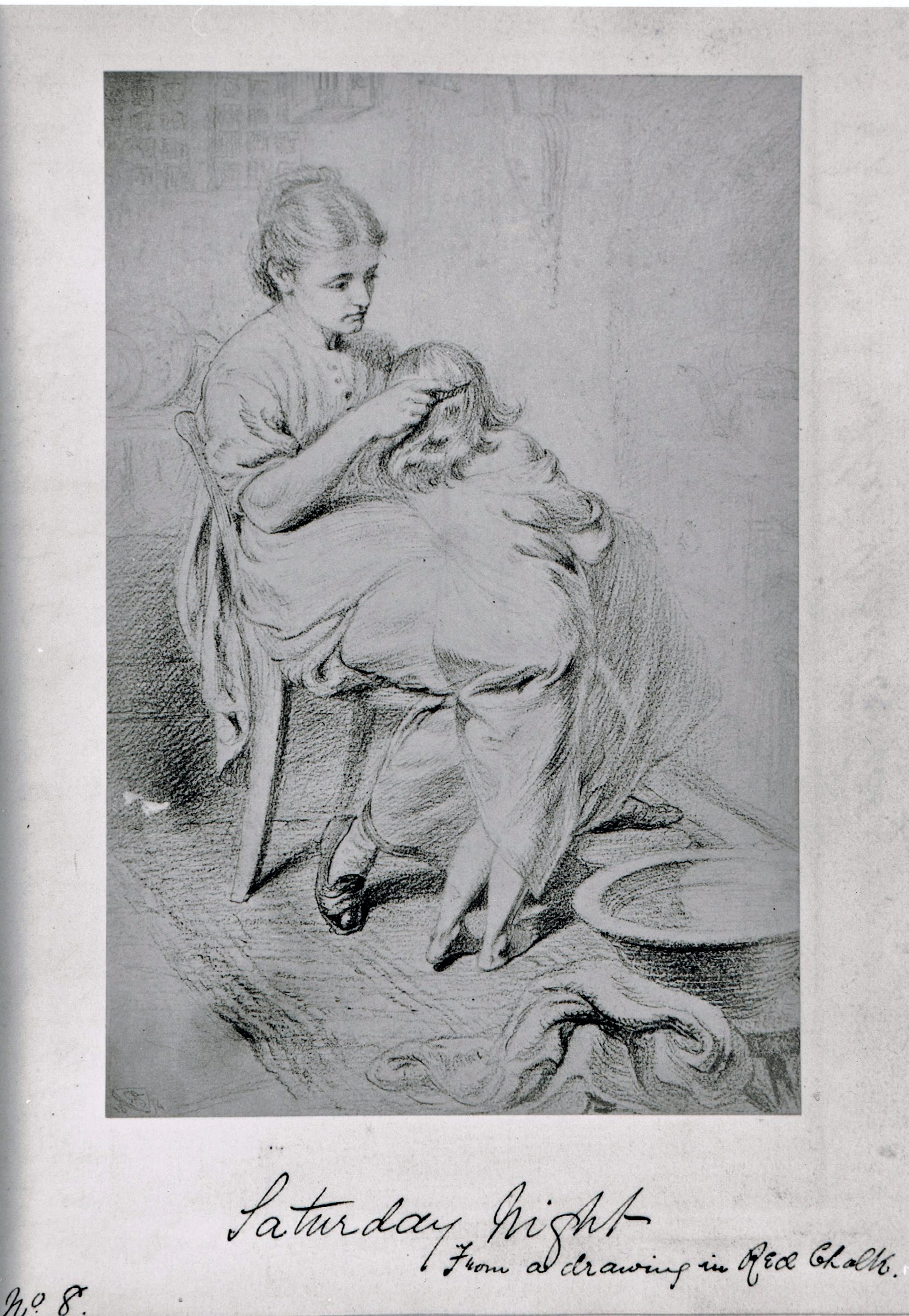 Chalk Drawing by Frederic W Shields, died 1911